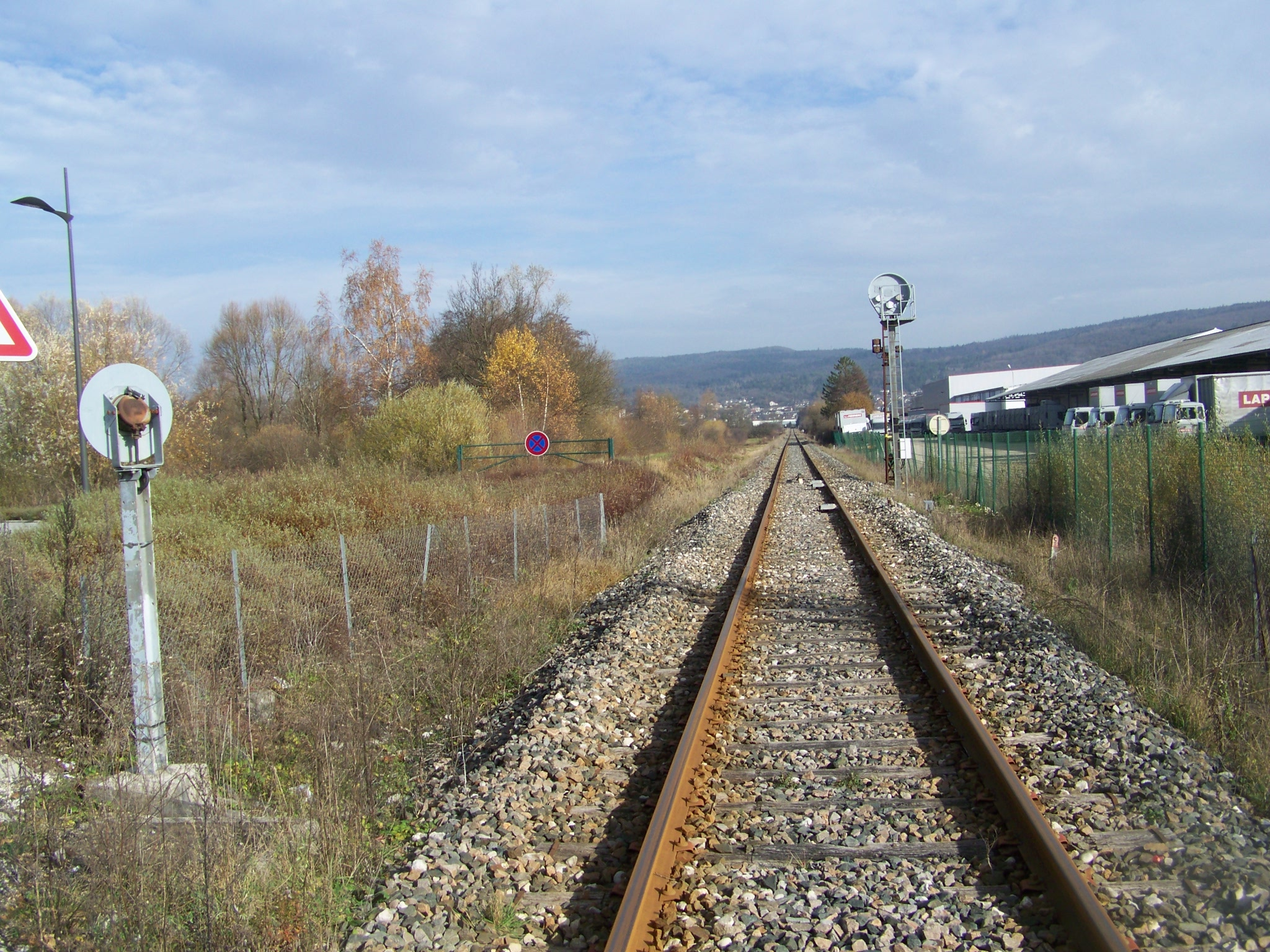 Sight on line from Andelot to La Cluse at Arbent when leaving the city of Oyonnax in Ain, France.